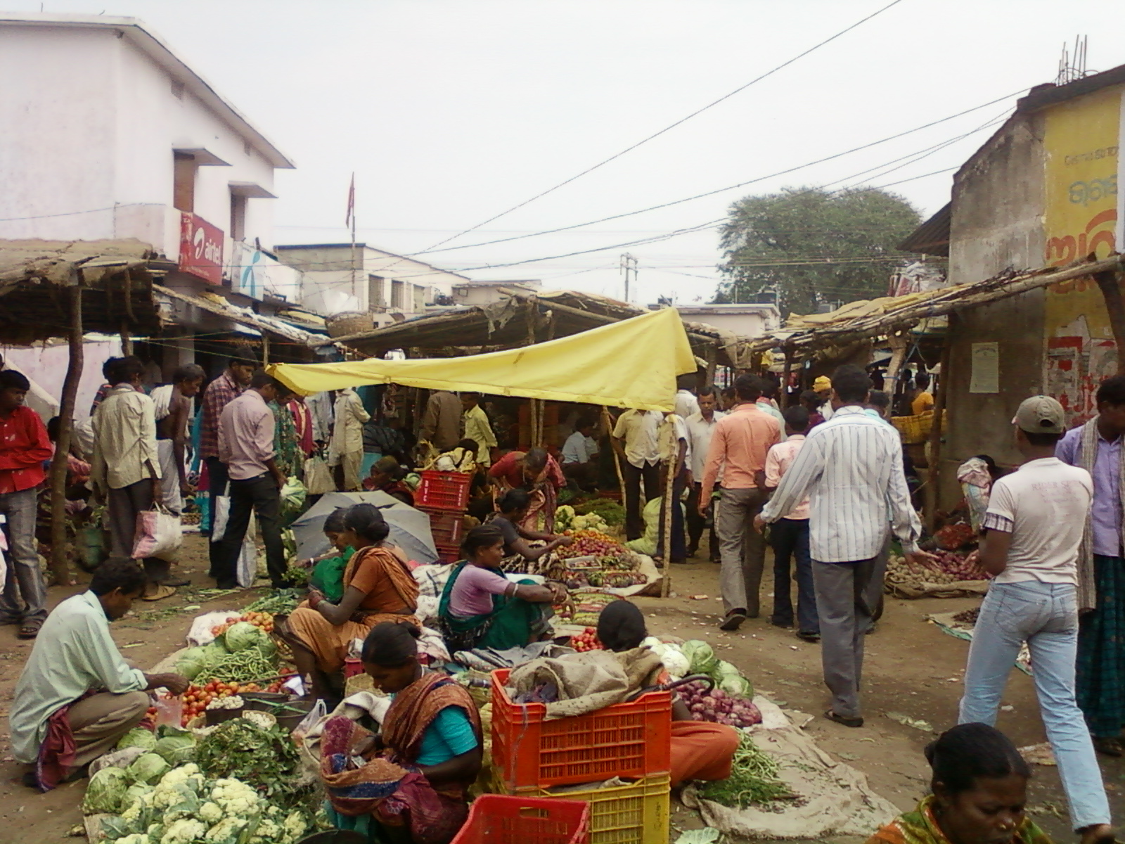 A scene of khariar Daily market.